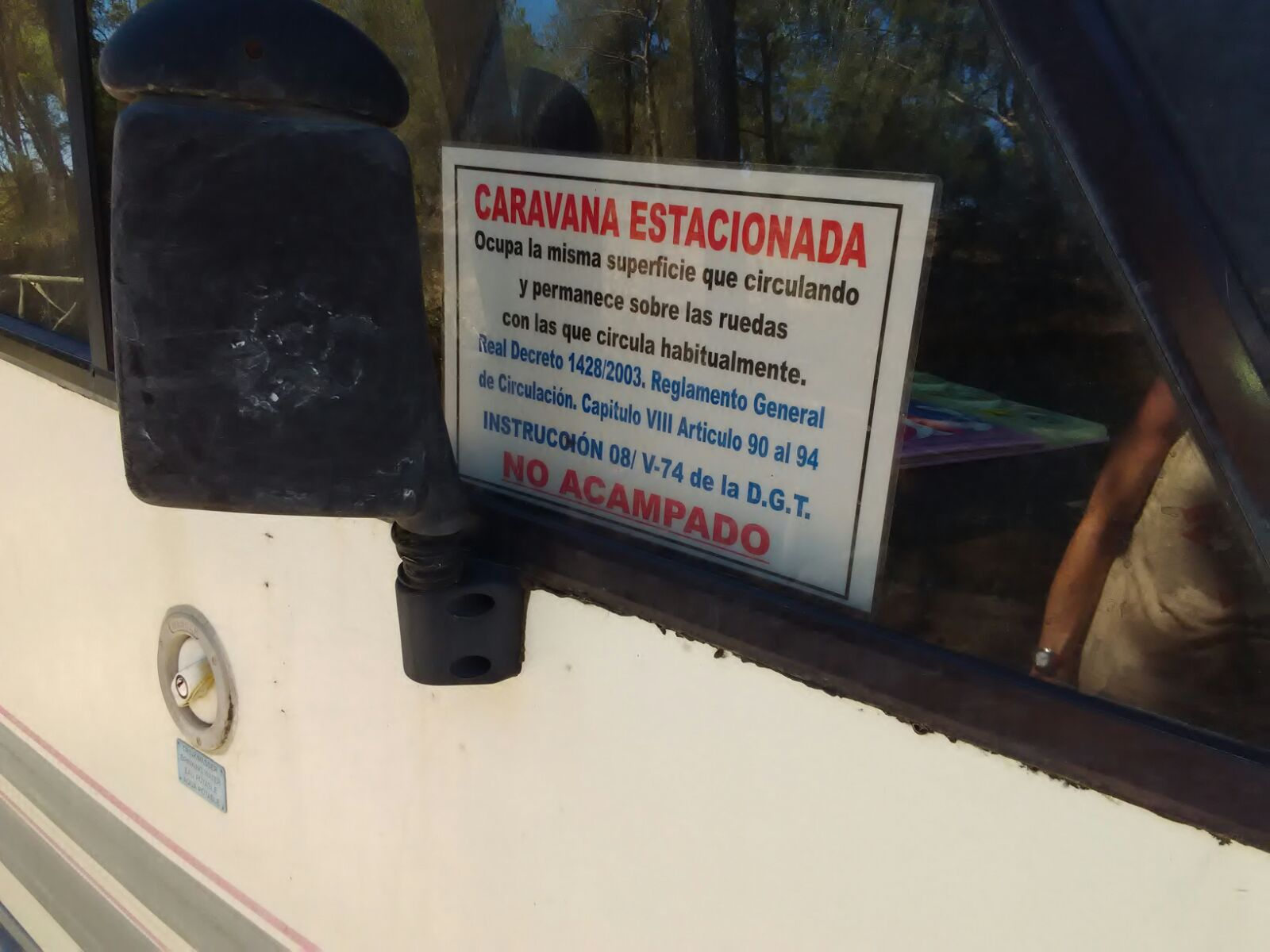 Spanish legal advertisement about motorhomes.